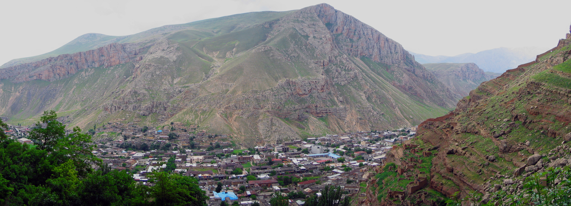 View on Maku from the castle, East Azerbaijan, Iran. Made using Hugin and GIMP.